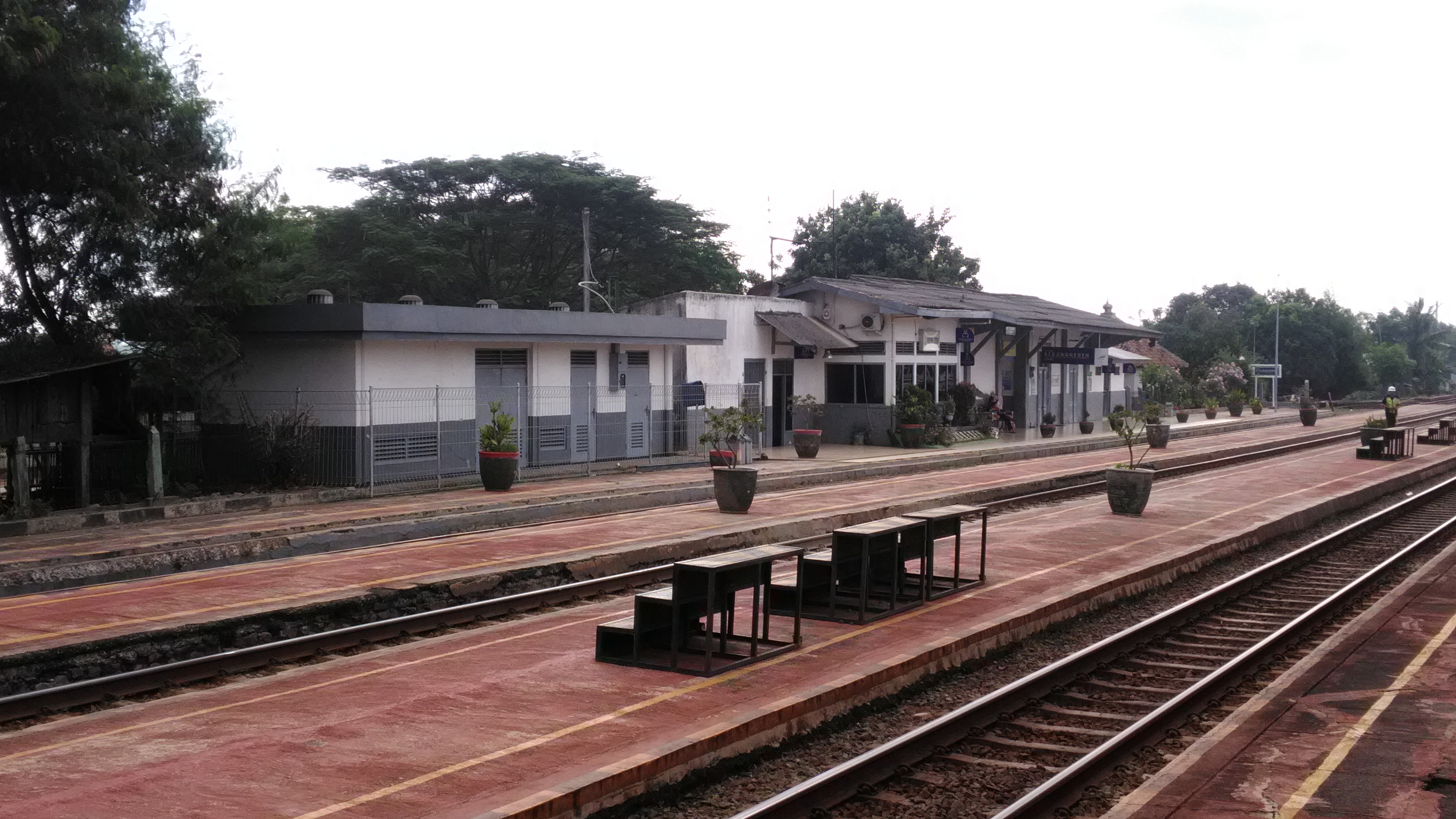 Kedunggedeh Station